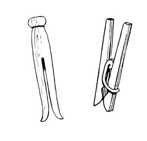 line art drawing of a clothespin.